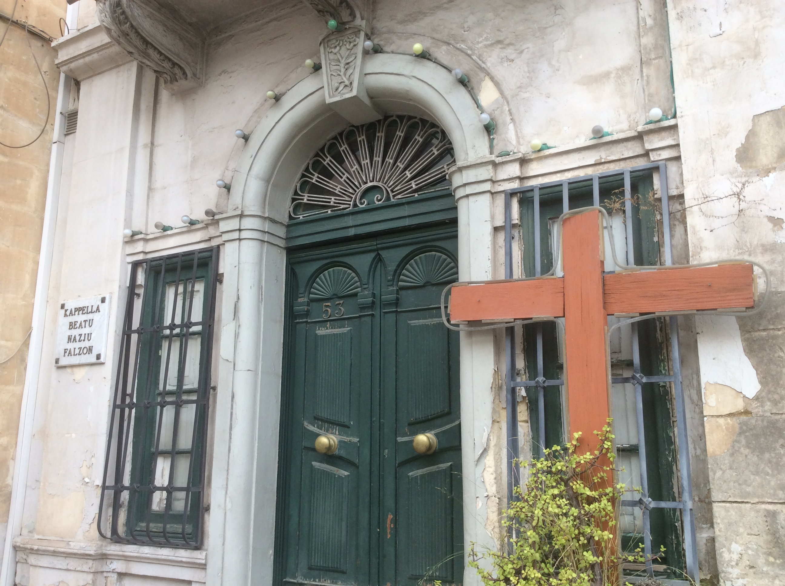 Beatu Nazju Falzon Chapel, part of Villa Lauri